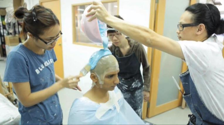 For the movie Mugamoodi, Jiiva flew down to Hong Kong for a body head mold session that lasted for eight hours. Costume designer Gabriella and her ten member team took nearly six months for designing the suit, mask, cap and the belt that was also officially released as part of first cut promotions.